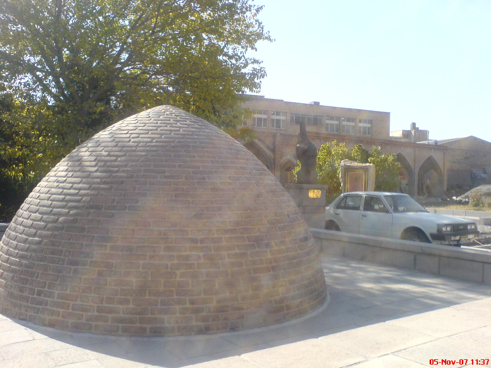 I created tish image myself in 2-Kamal Tomb, Beylankuh street, Abbasi street, Tabriz , Iran. Tohid Alizadeh.